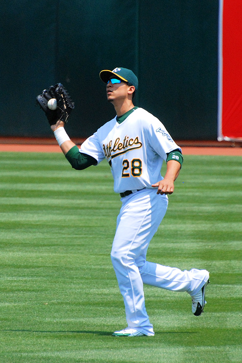 Description Carlos Gonzalez makes a catch against the Seattle Mariners DateJuly 10, 2008SourceI created this work entirely by myself.AuthorJames Venes 07:56, 17 August 2008 . . Cakeordeath34 . . 480×720 (211 KB) Carlos Gonzalez makes a catch against the Seattle Mariners